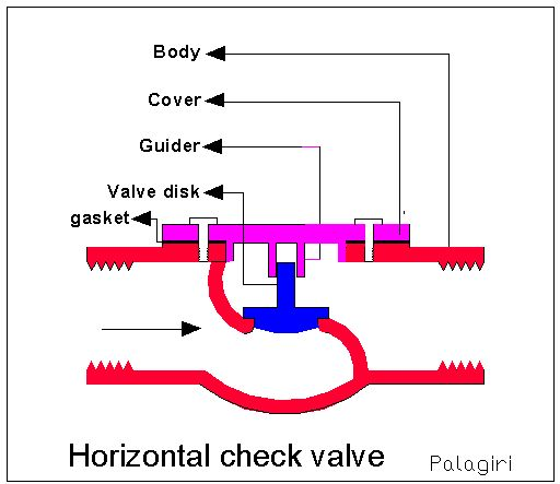 horizontal check valve